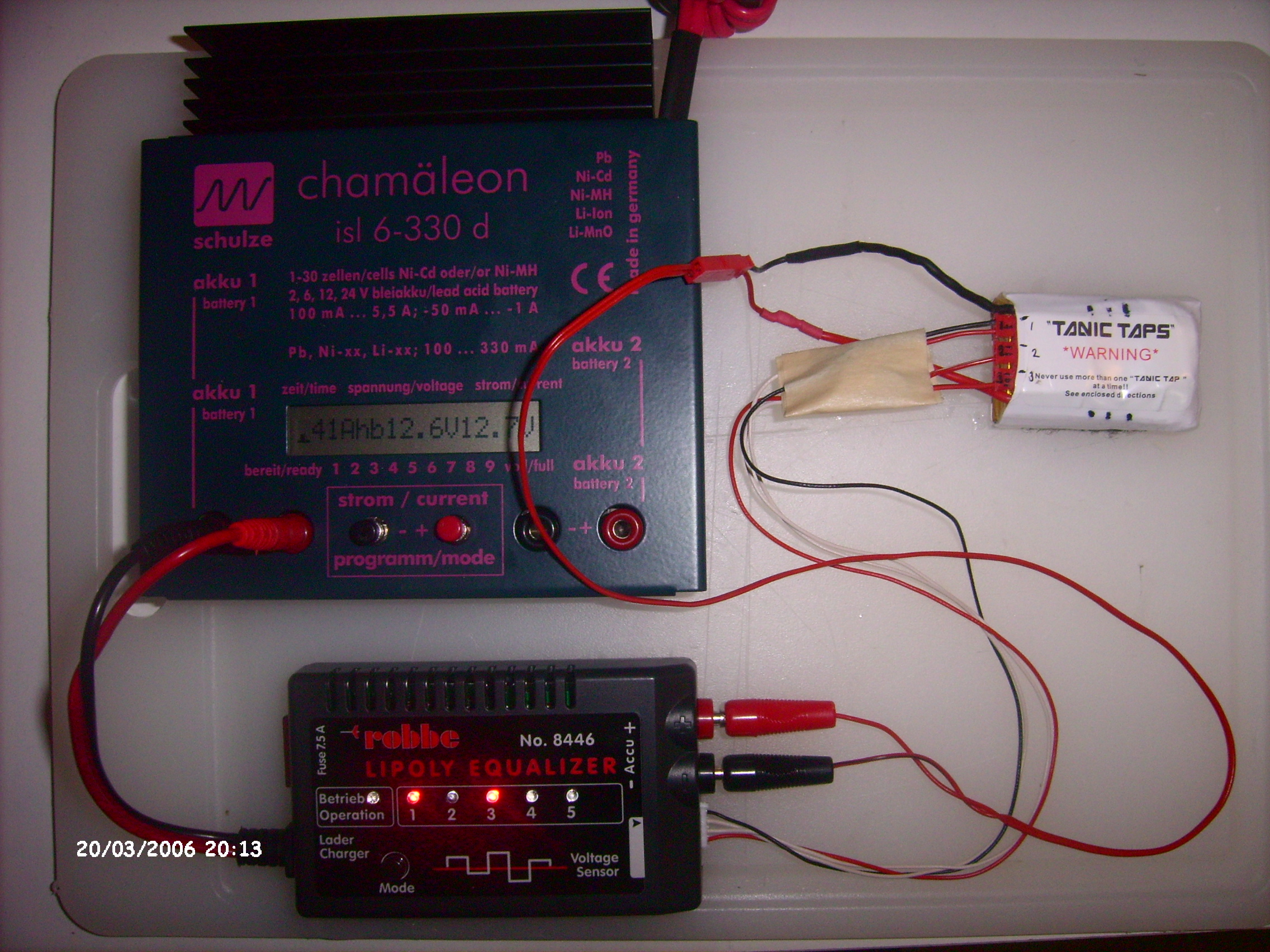 Balancer LIPOLY EQUALIZER, Workshop 20. 03. 2006